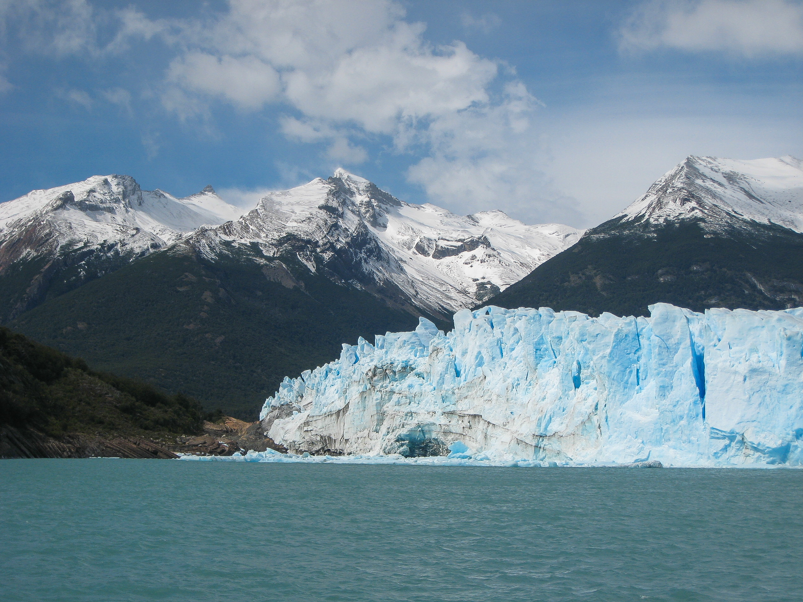 Perito Moreno Glacier, January 2008.